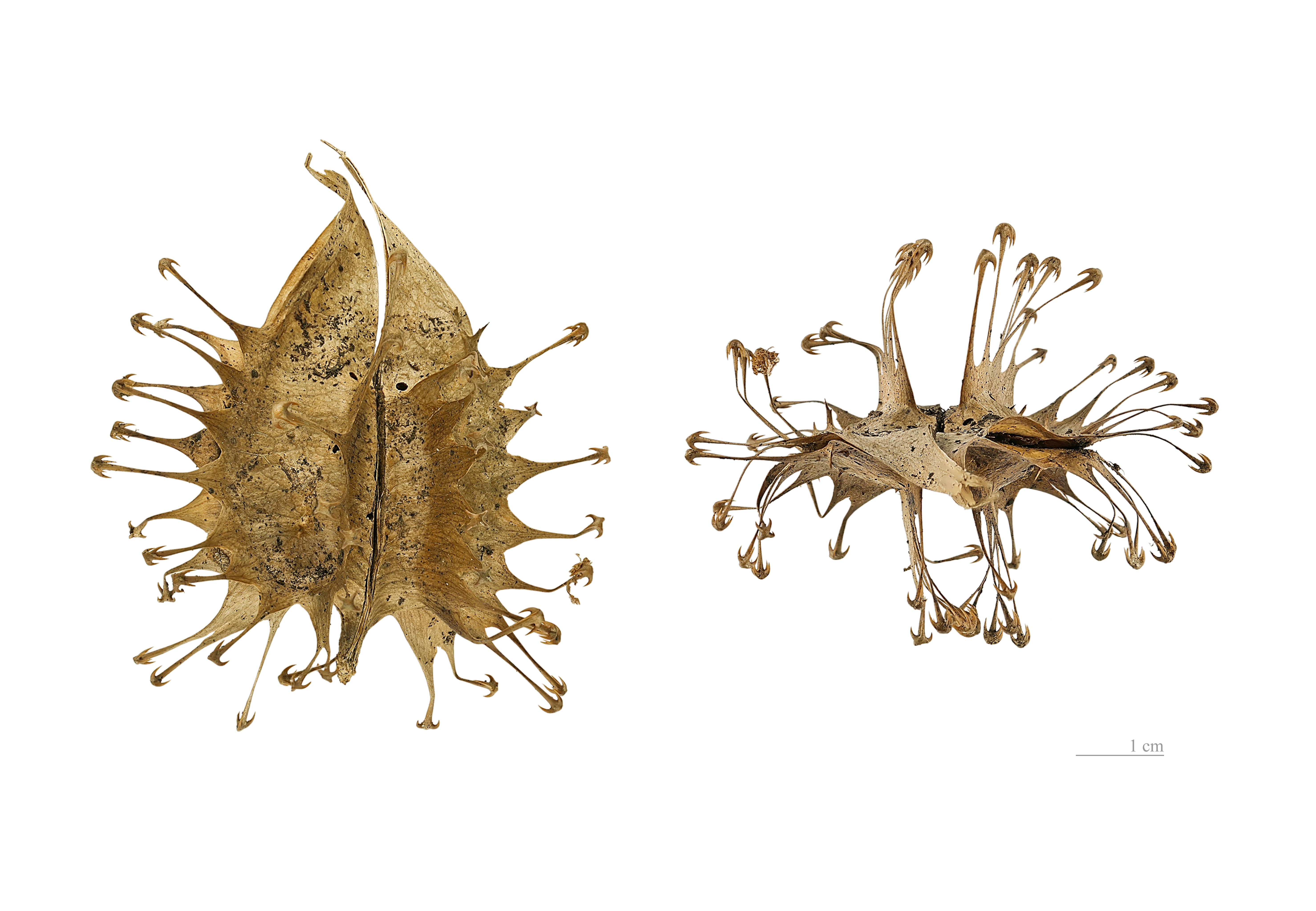 Capsule of Uncarina ankaranensis. These capsules spiky, which carry at their ends a harpoon 4 hooks, which facilitates dispersal by clinging to animal fur. This is what we call the zoochory. Thus, the seeds can travel long distances and ensure the extension of the species. Two views of same specimen.